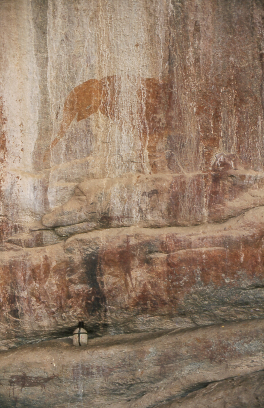 stoneage paintings of the San, found near Murewa (Zimbabwe)